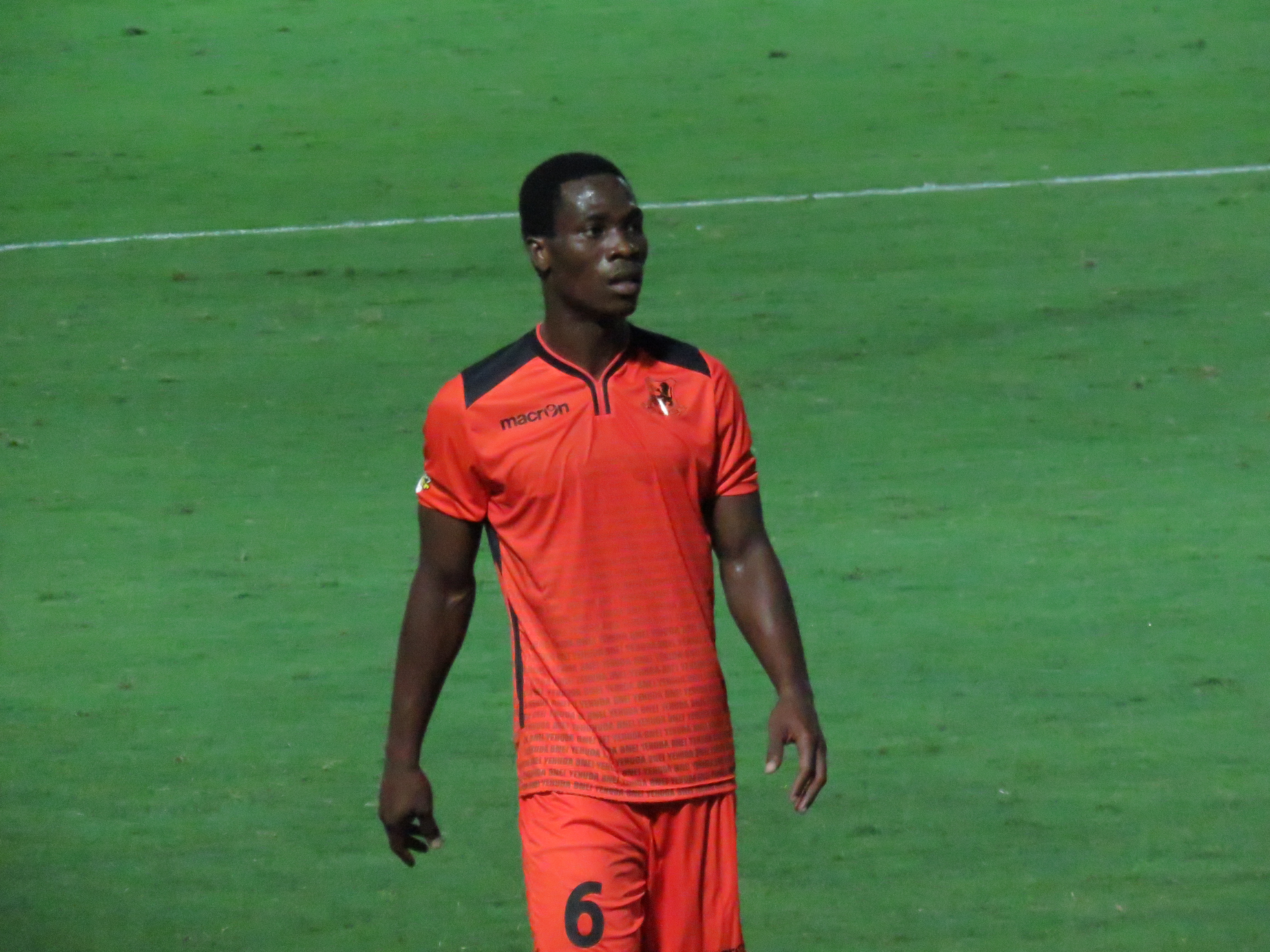 Bnei Yehuda Tel Aviv vs. Hapoel Acre - August 31, 2015